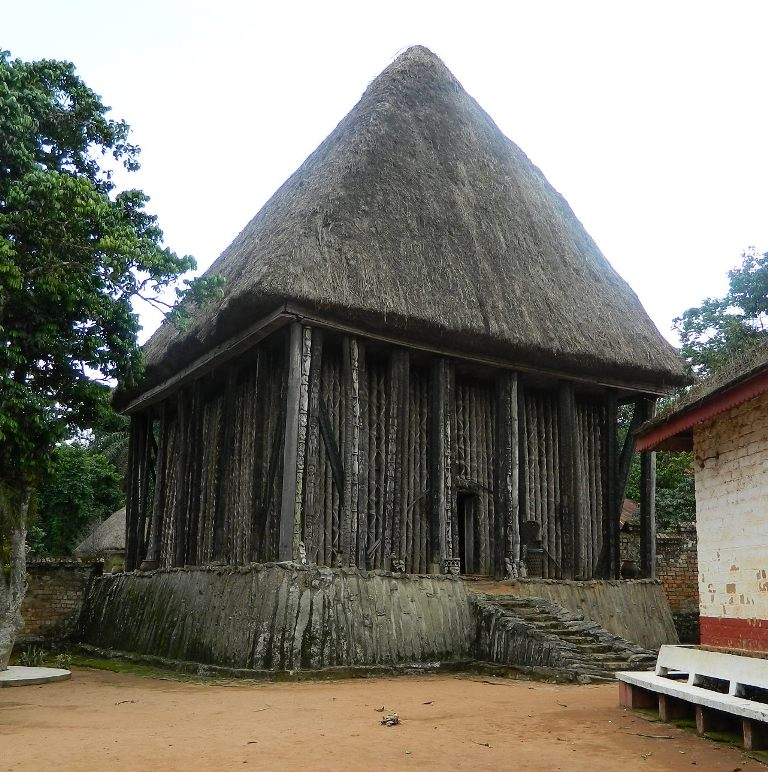 This is the most important building in the Bafut Palace. The King or Fon of Bafut lives in this building. It is a sacred building. It has a solid foundation made of long stone pillars. The walls are made of wooden material, and the roof is made of wood and grass.